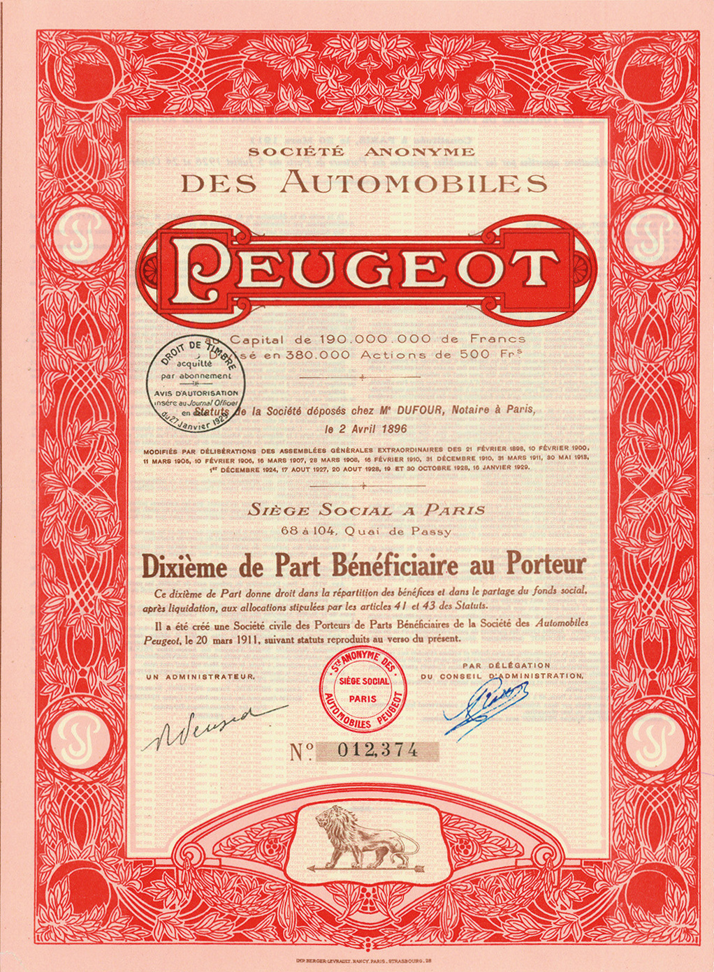 1/10 Part Bénéficiaire of the SA des Automobiles Peugeot, issued 27. January 1929